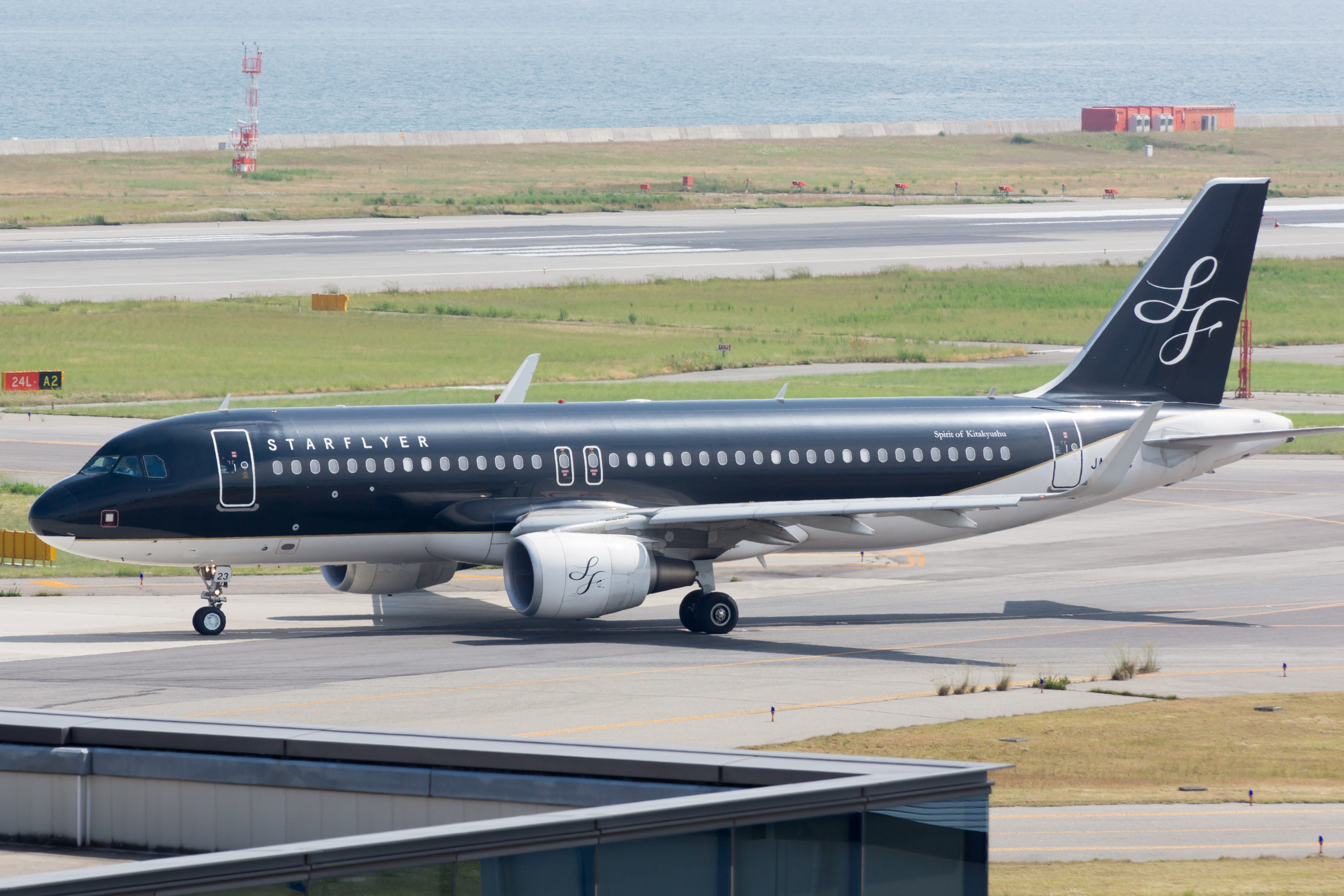 Star Flyer / スターフライヤー Airbus A320-214 JA23MC 7G24, Departed to Haneda, Tokyo Osaka Kansai Int'l Airport